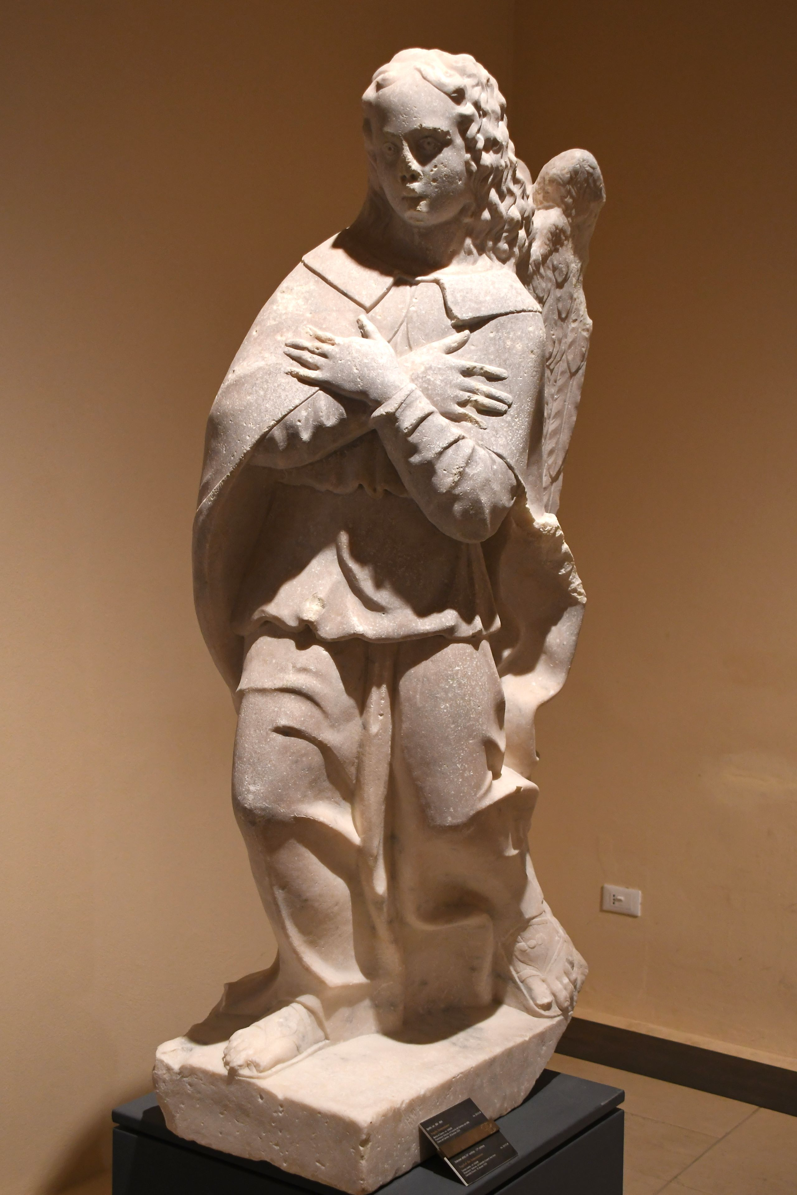 Siracusa, Galleria Regionale di Palazzo Bellomo, Angelo Annunziante, siracusa ex. Convento del Carmine (Unknown 16/17th century)